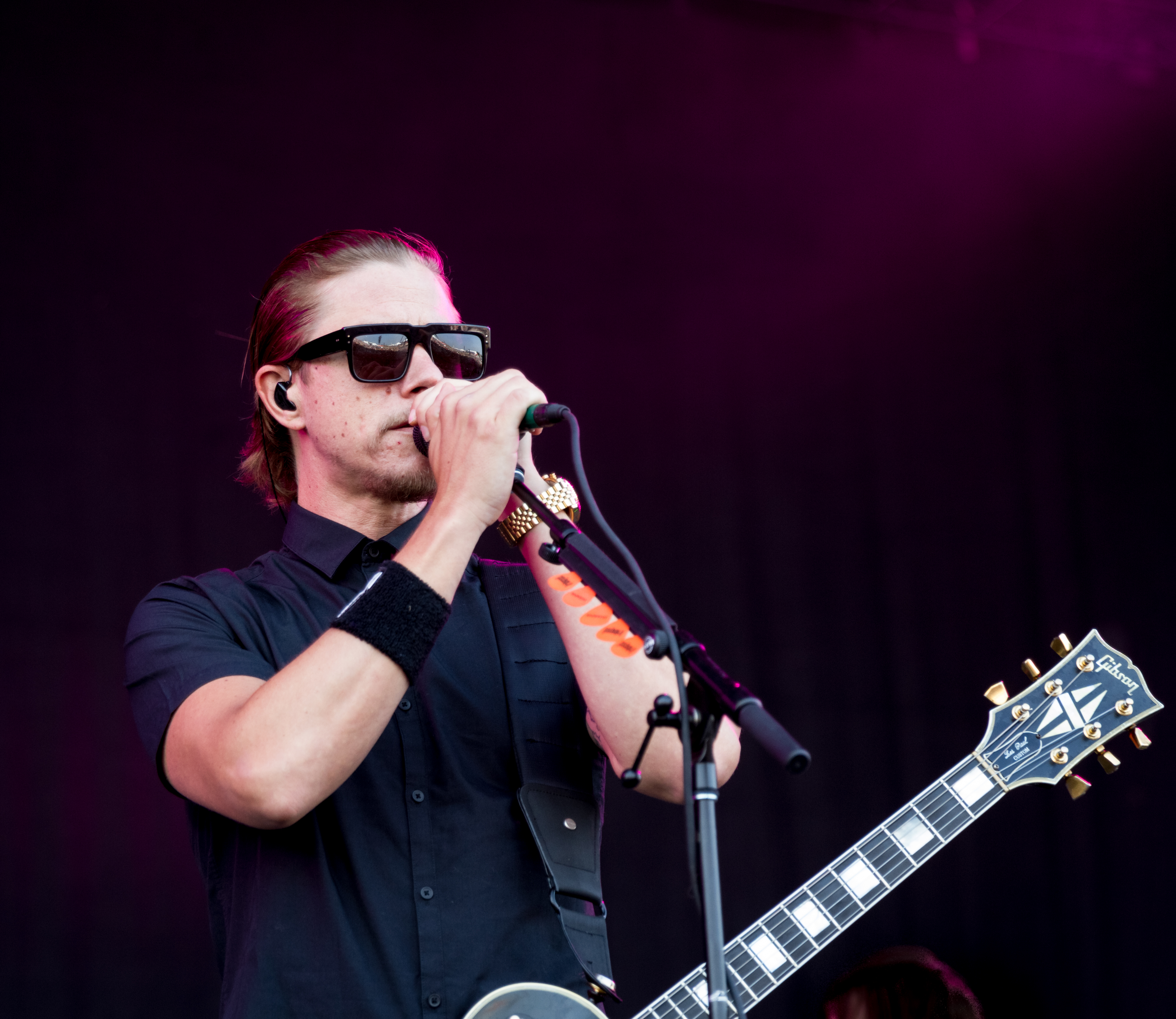 Interpol (Band) - Rock am Ring 2015